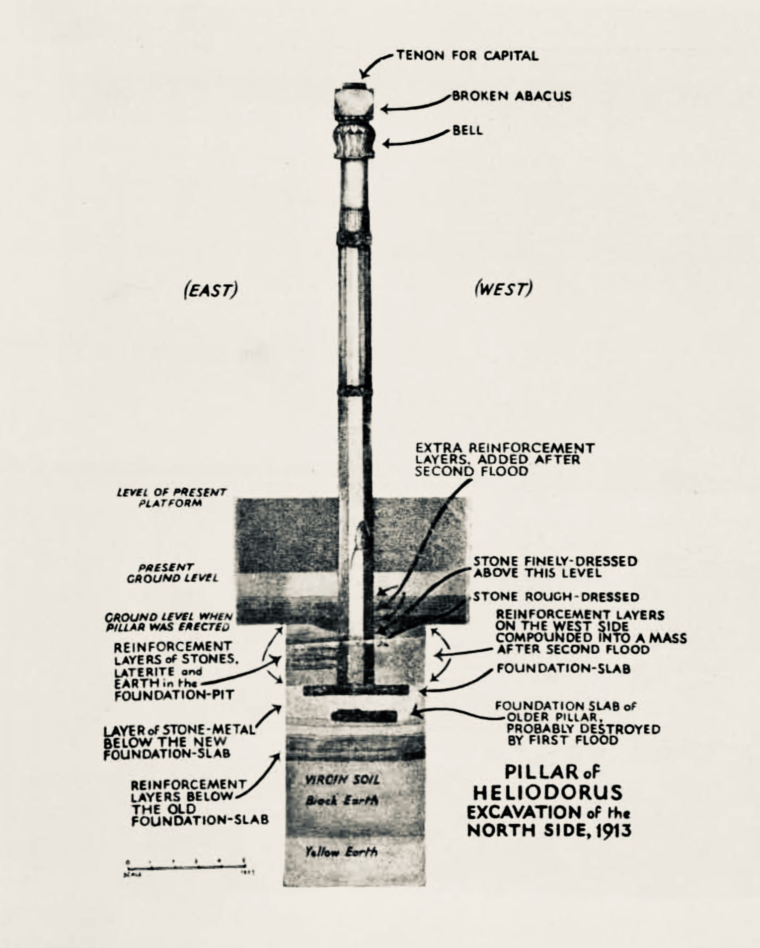 The Heliodorus pillar is a historically important stone column discovered in Besnagar, near Vidisha Madhya Pradesh India, at the confluence of two rivers. The pillar has two Brahmi script inscriptions, one of which states it was erected by a Indo-Greek ambassador Heliodorus (2nd century BCE) converted to a devotee of Vasudeva (Krishna, Vishnu). The second inscription is from the Mahabharata, and mentions the virtues of "restraint, renunciation and rectitude". This image shows the cross section of the pillar after the first of two major excavations at the Besnagar site. It shows that this pillar was a replacement to even more ancient pillar. It also shows that almost one-fourth of the original pillar is below the modern era ground level, probably from floods and silt deposit. The archaeological excavations have revealed that this was one of eight pillars that has survived, and the eight pillars were aligned along the north-south axis near a more ancient elliptical temple. For more: John Irwin (1974), The Heliodorus Pillar at Besnagar, Puratattva, No. 8, pp. 166–172 (the plates are at the front of the journal volume). Note: This is a photo of a 2-D image published in 1913. Therefore Wikimedia Commons PD-Art licensing guidelines apply. Any rights I have as a photographer is herewith donated to wikimedia commons under CC 4.0 license.